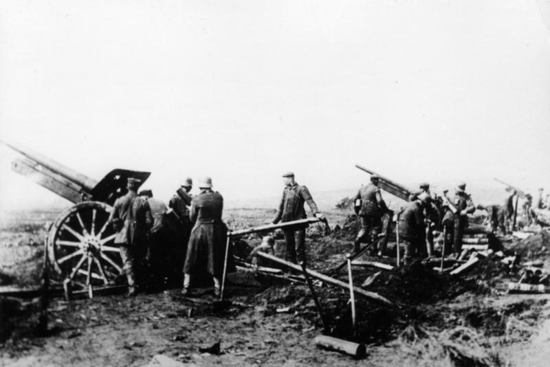 This appears to show a battery of 10 cm K 14 (10 cm field gun model 1914) in action.